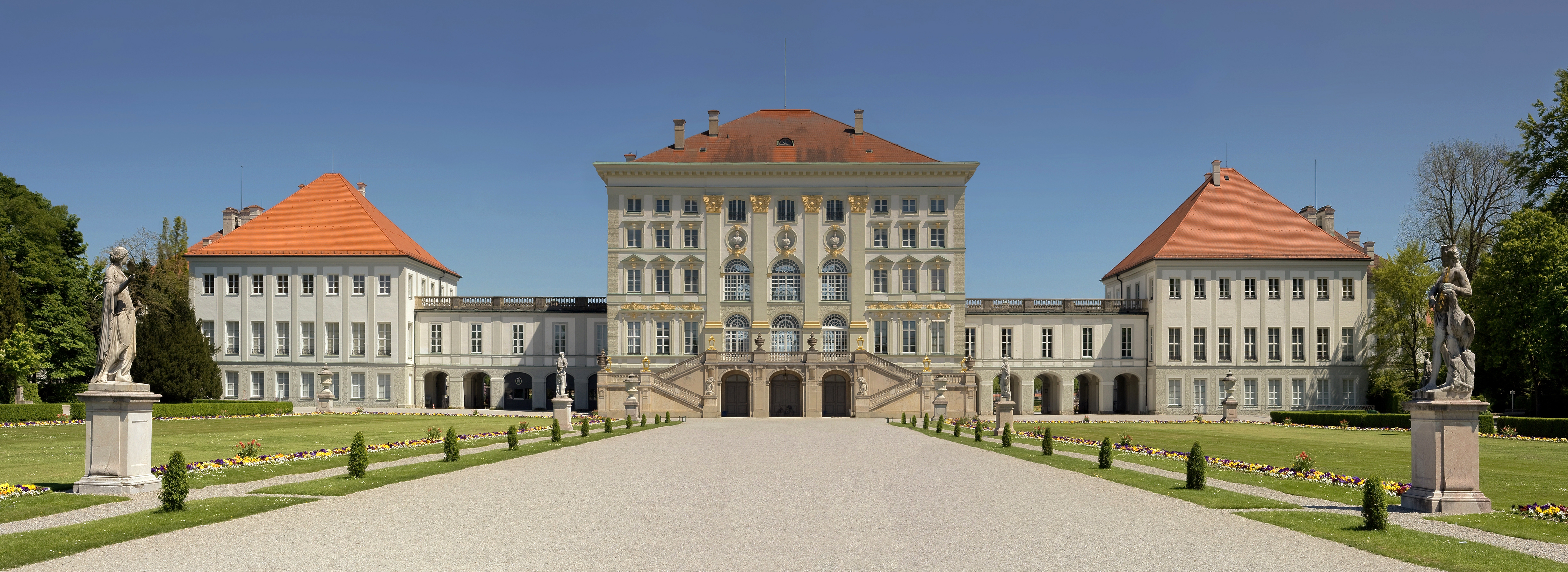 The Nymphenburg Palace (German: Schloss Nymphenburg) is a Baroque palace in Munich, Bavaria, Germany. The palace was the summer residence of the rulers of Bavaria.